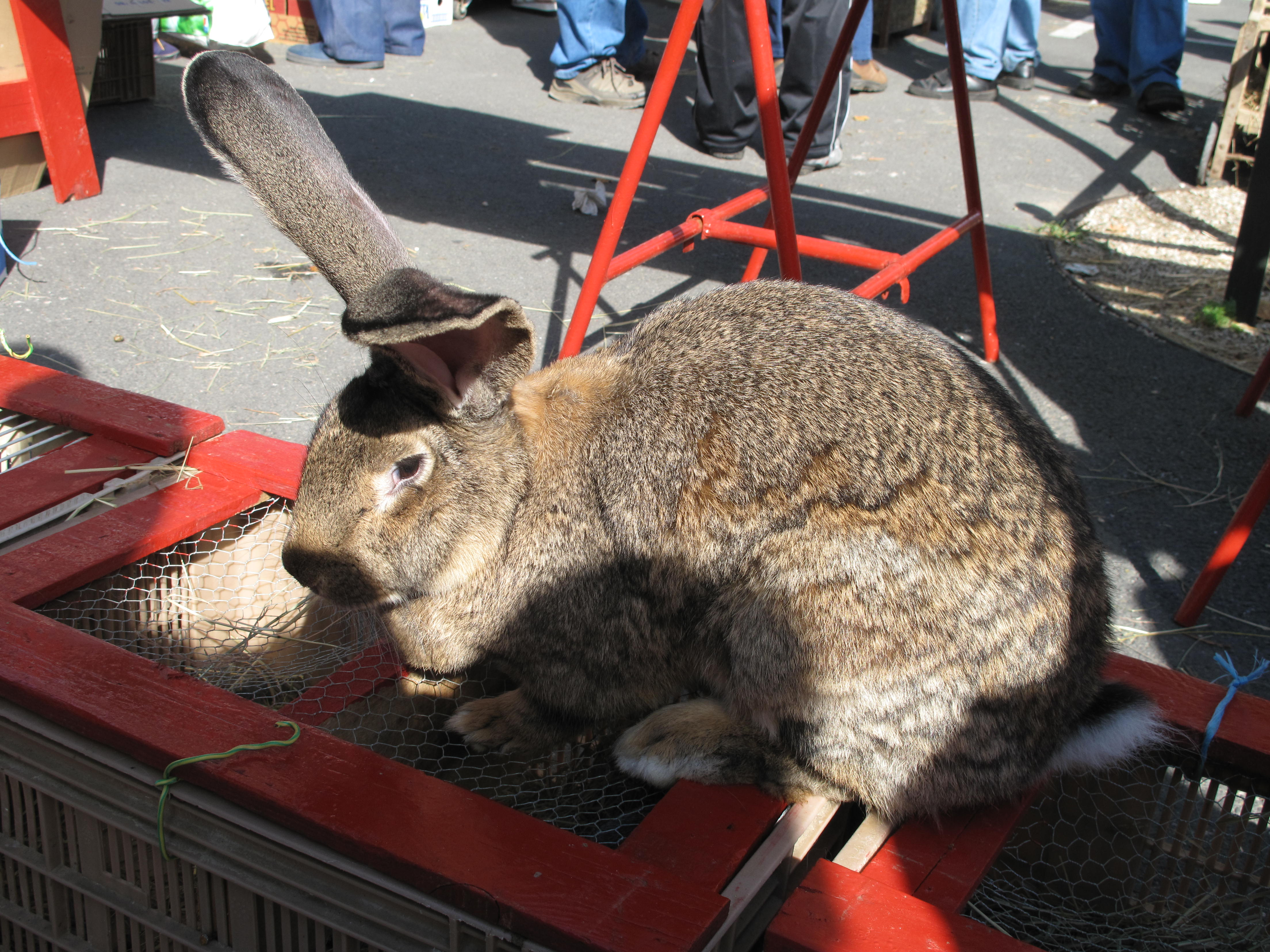 Huge rabbit of the breed Géant-des-Flandres (=Flemish Giant) in the monday market in Louhans (Saône-et-Loire, France)